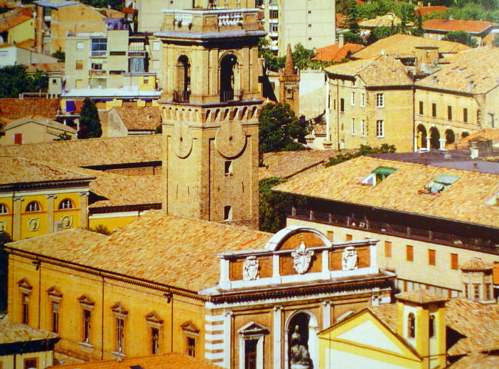 Captain's Palace